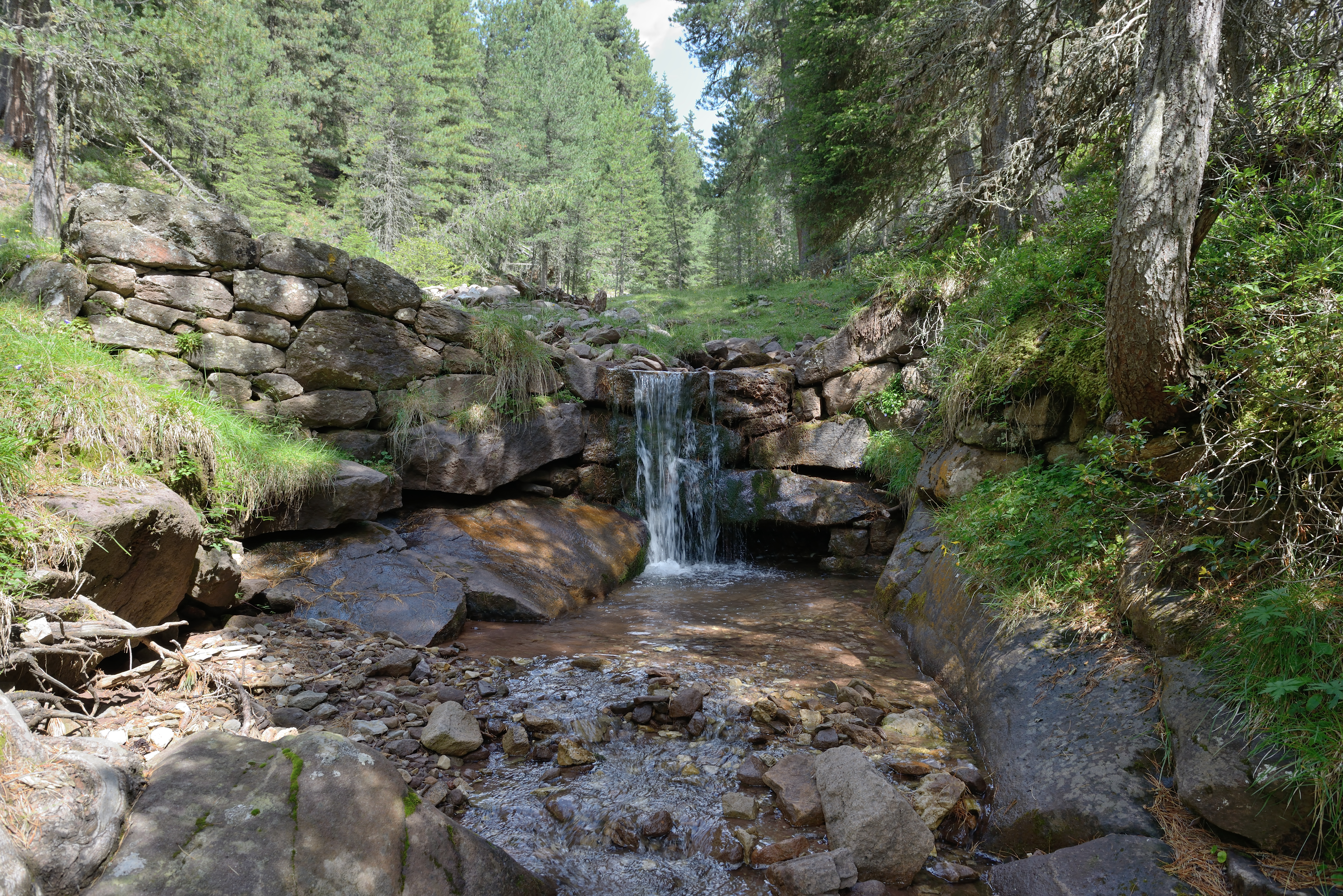 Weir on the Grialëces creek in St. Ulrich in Gröden